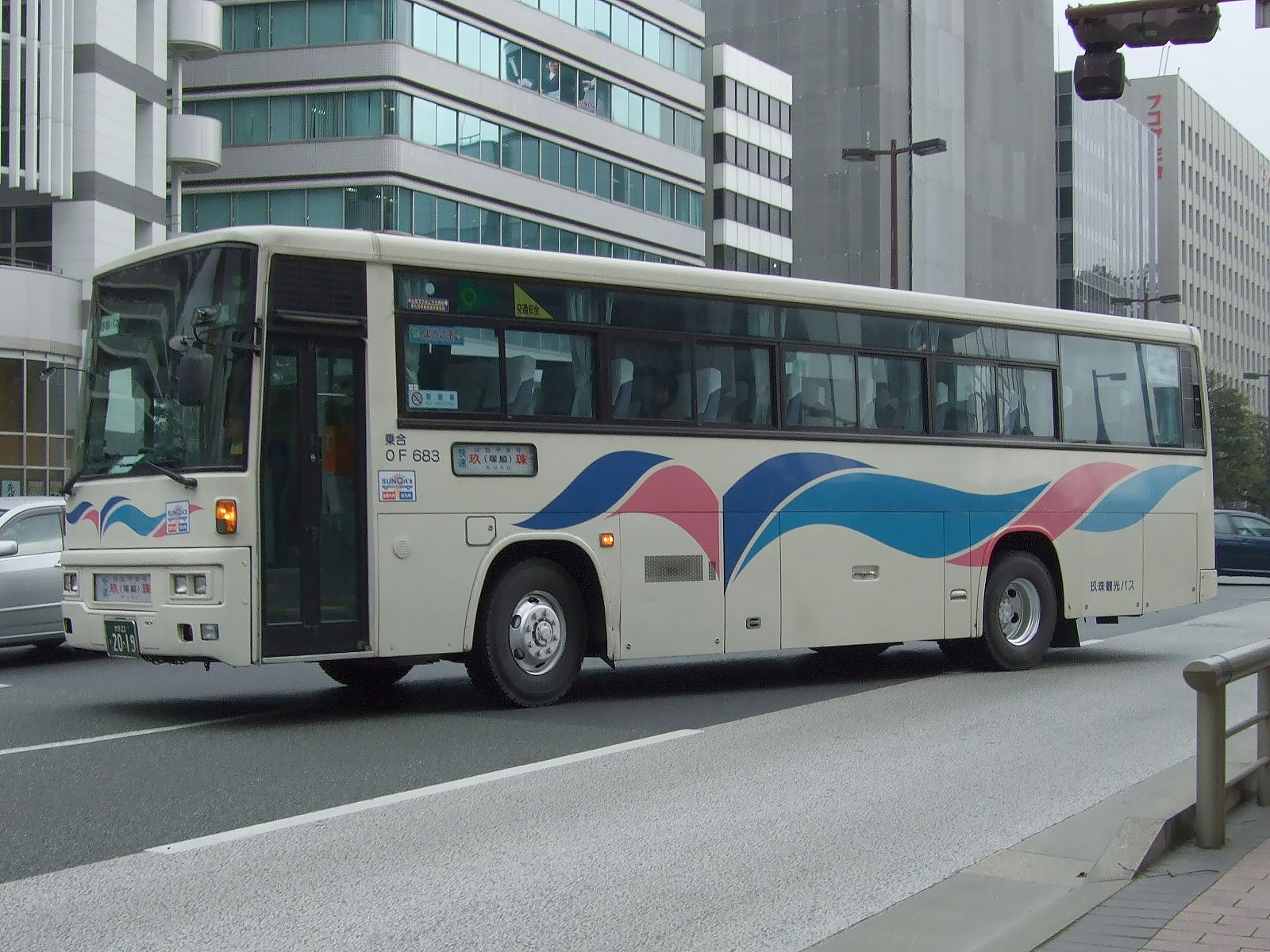 Company:Kusu Kanko Bus Use:transit bus (highway bus) Car license:大分22 か 2019 Code:OF683 Chassis manufacturer:Mitsubishi Motors Coachbuilder:Nishinippon Shatai Kogyo Location:in Chuo-ku, Fukuoka City, Fukuoka, Japan.